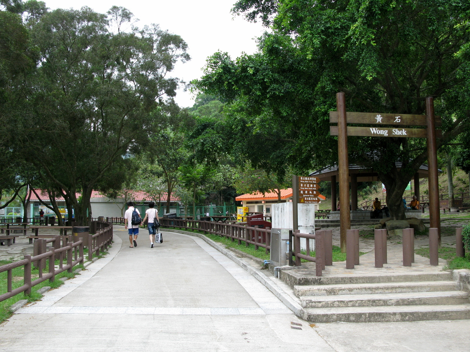 黃石 HK Wong Shek